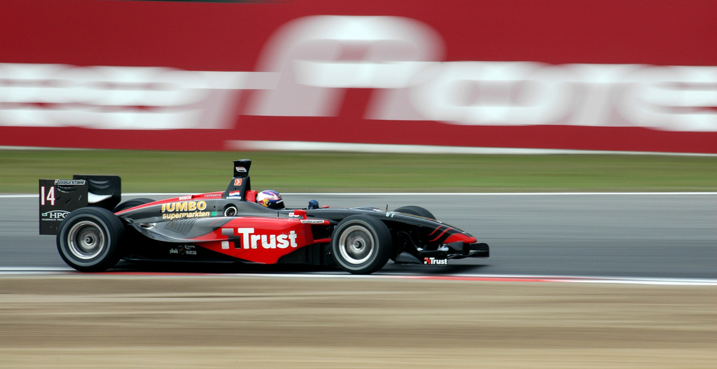 Robert Doornbos at Circuit Zolder, competing in the 2007 Champ Car season